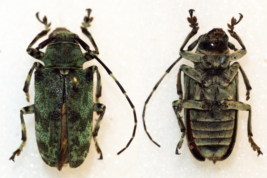 Thomson,1858 Sex: ? Data: 19-10-12 - Ebogo Village - Cameroon Size: ?